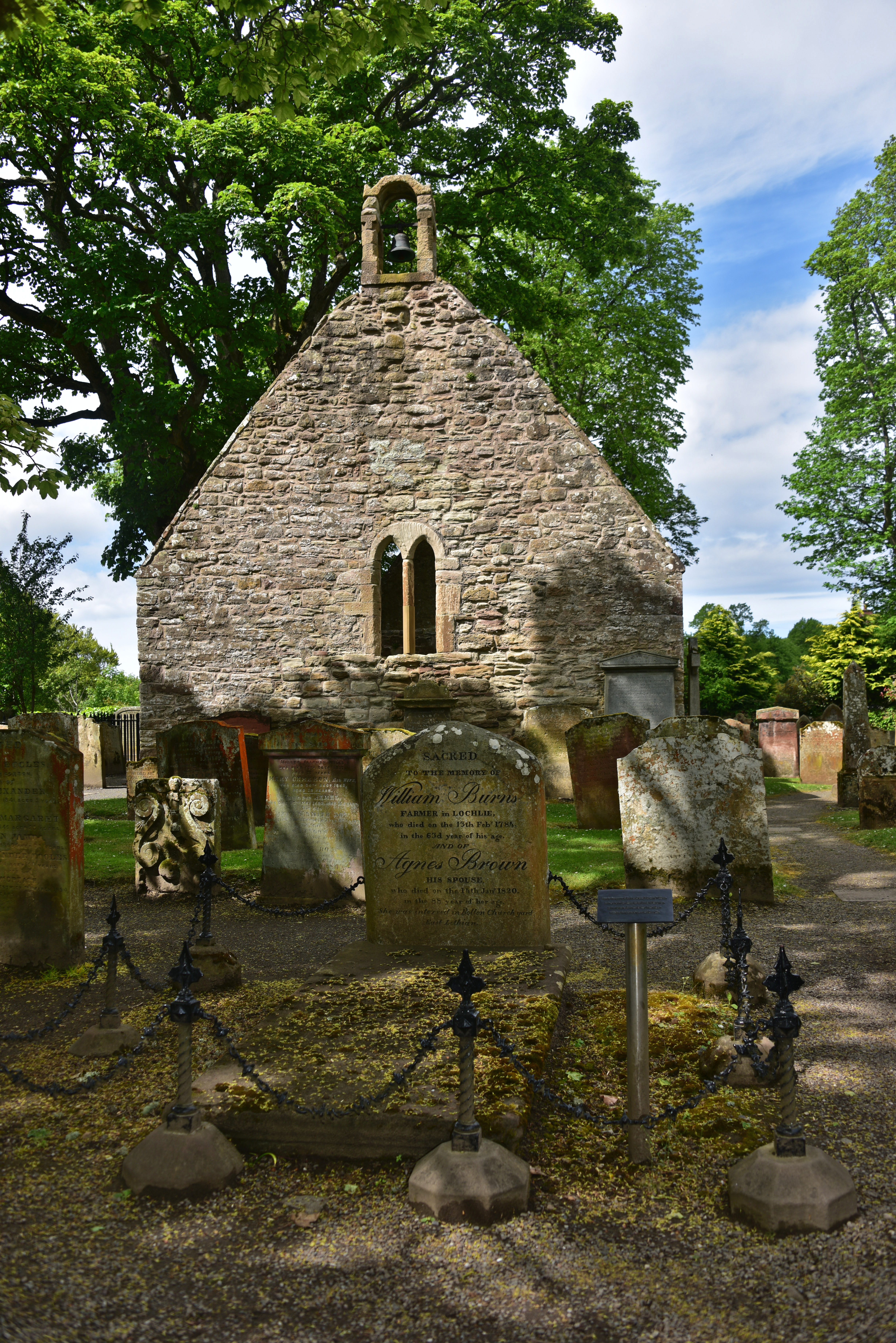 The ruins of the old church in Robert Burns's home village of Alloway, which formed part of the setting of his poem "Tam o' Shanter."